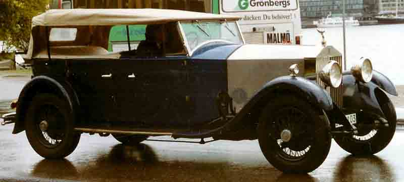 Rolls-Royce Phantom I Tourer